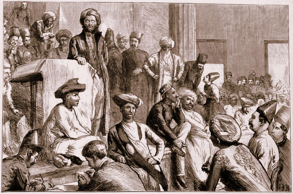 Support for the Ilbert Bill, from The Graphic, 1883 Source: ebay, Mar. 2010